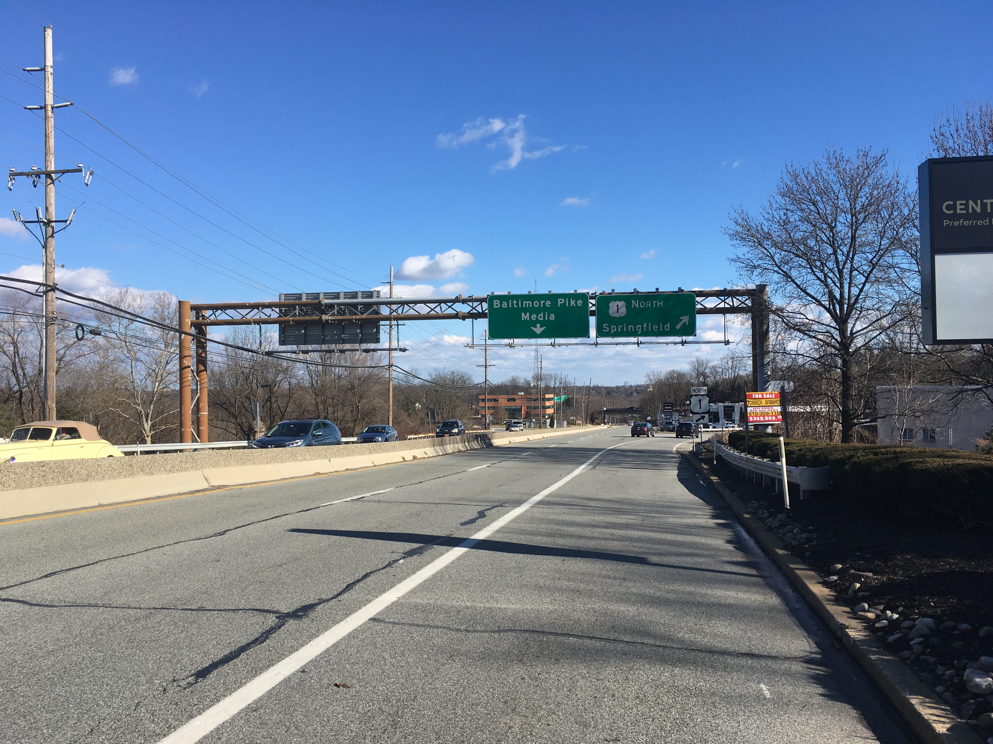 Northbound U.S. Route 1 (Baltimore Pike) at the exit for Baltimore Pike in Middletown Township, Pennsylvania, where it splits onto the Media Bypass